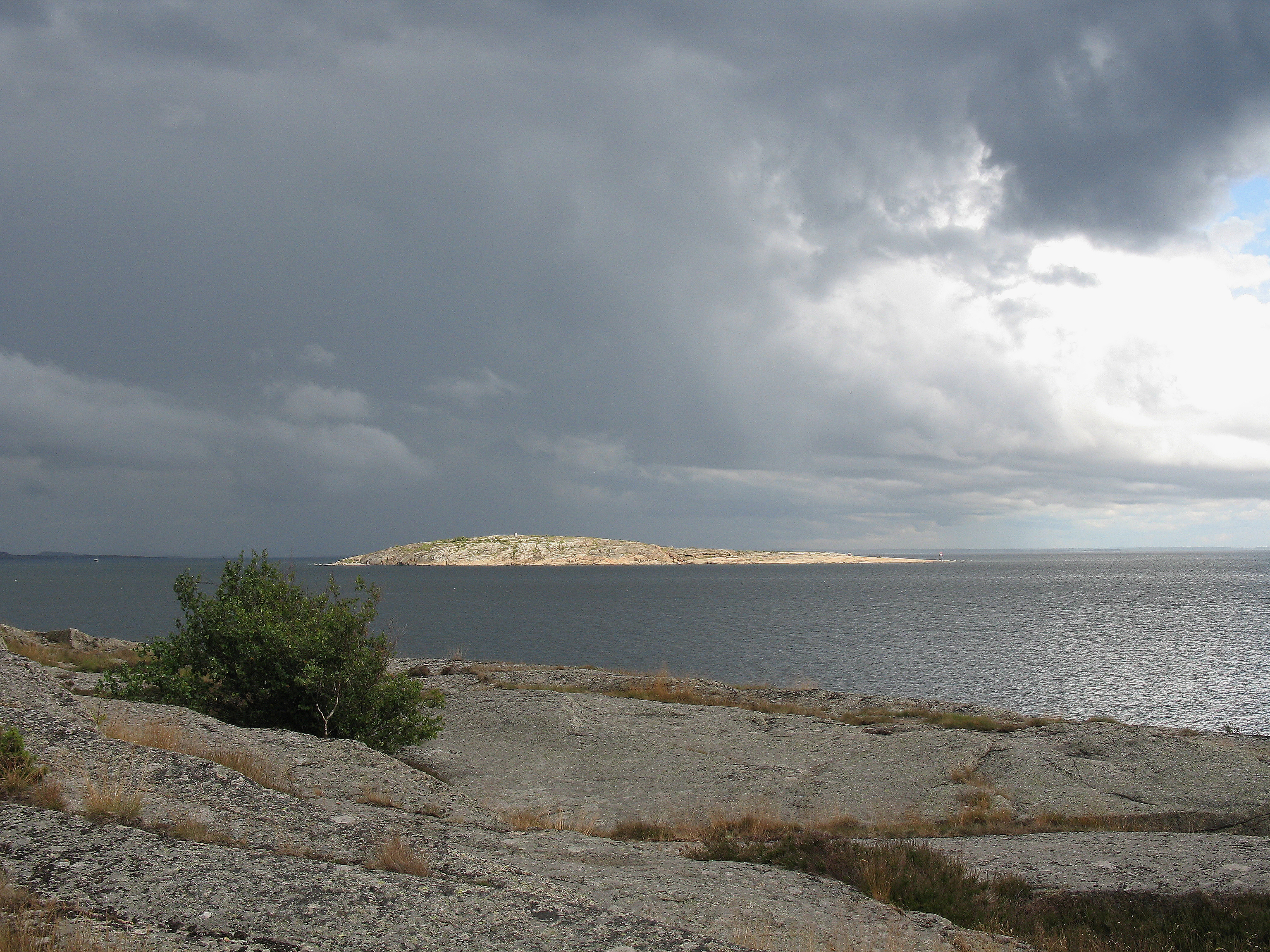 Øya Leistein i Tjøme skjærgård